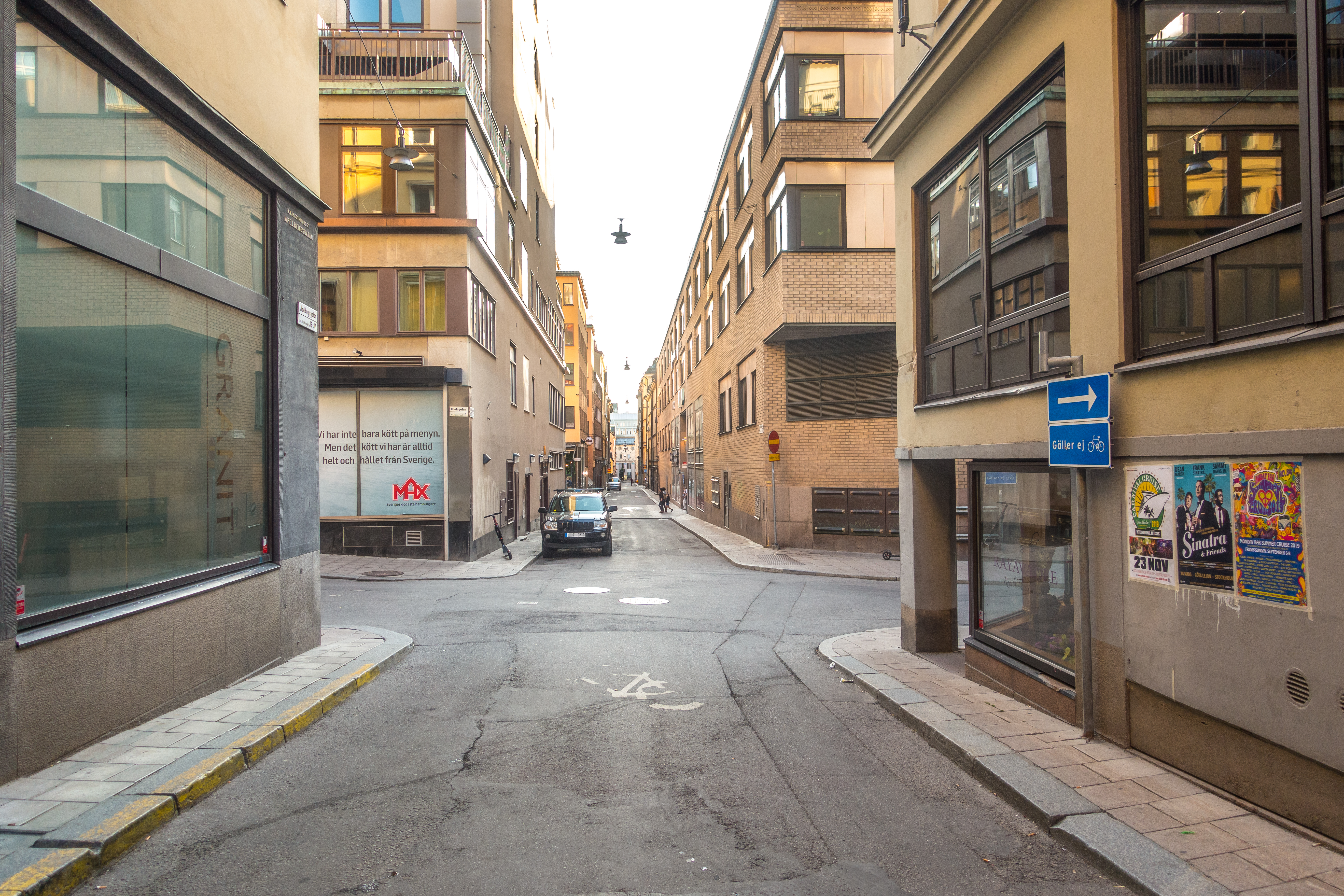 Apelbergsgatan - where it all began.